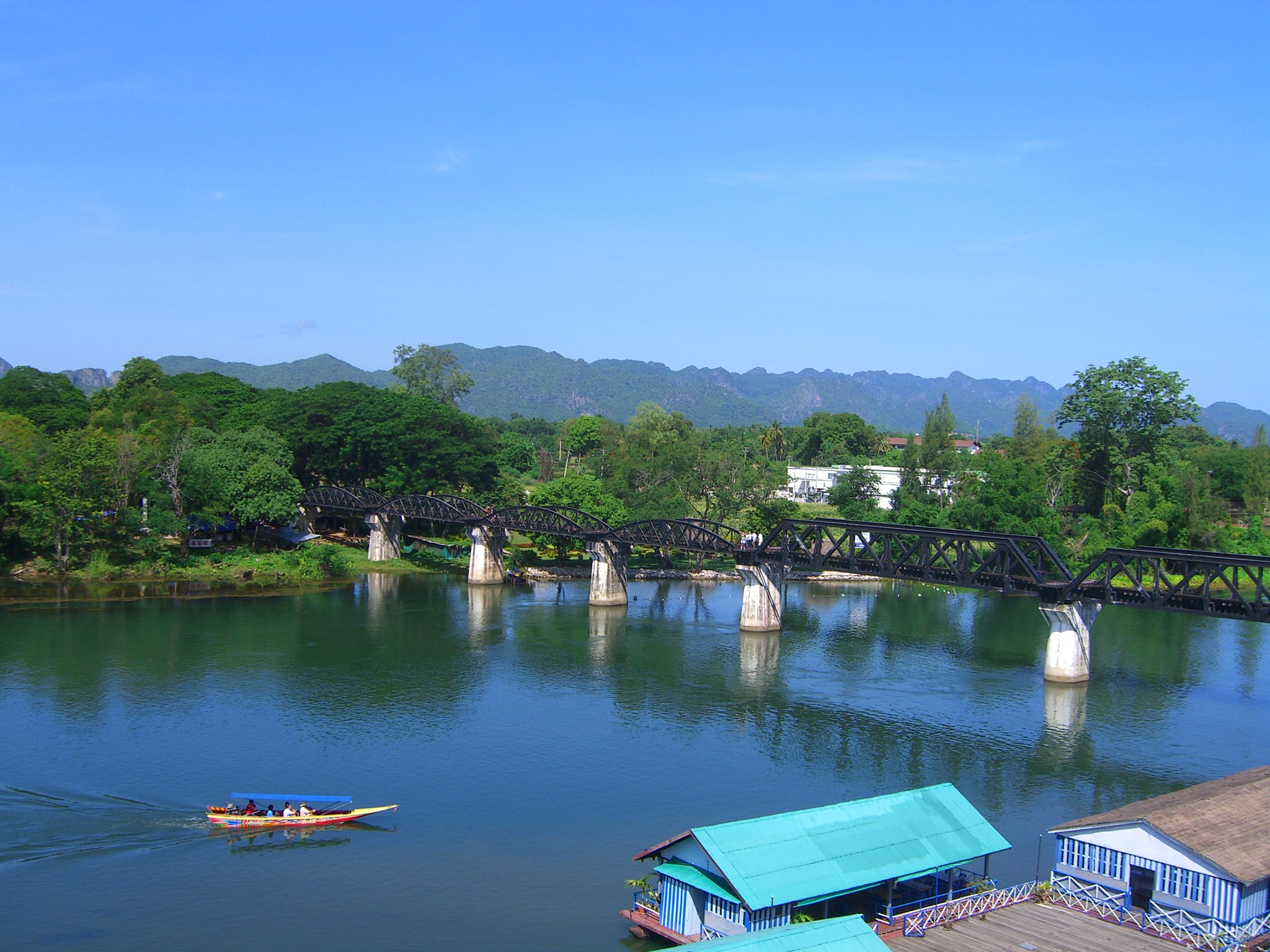 yep, that's it. still standing.